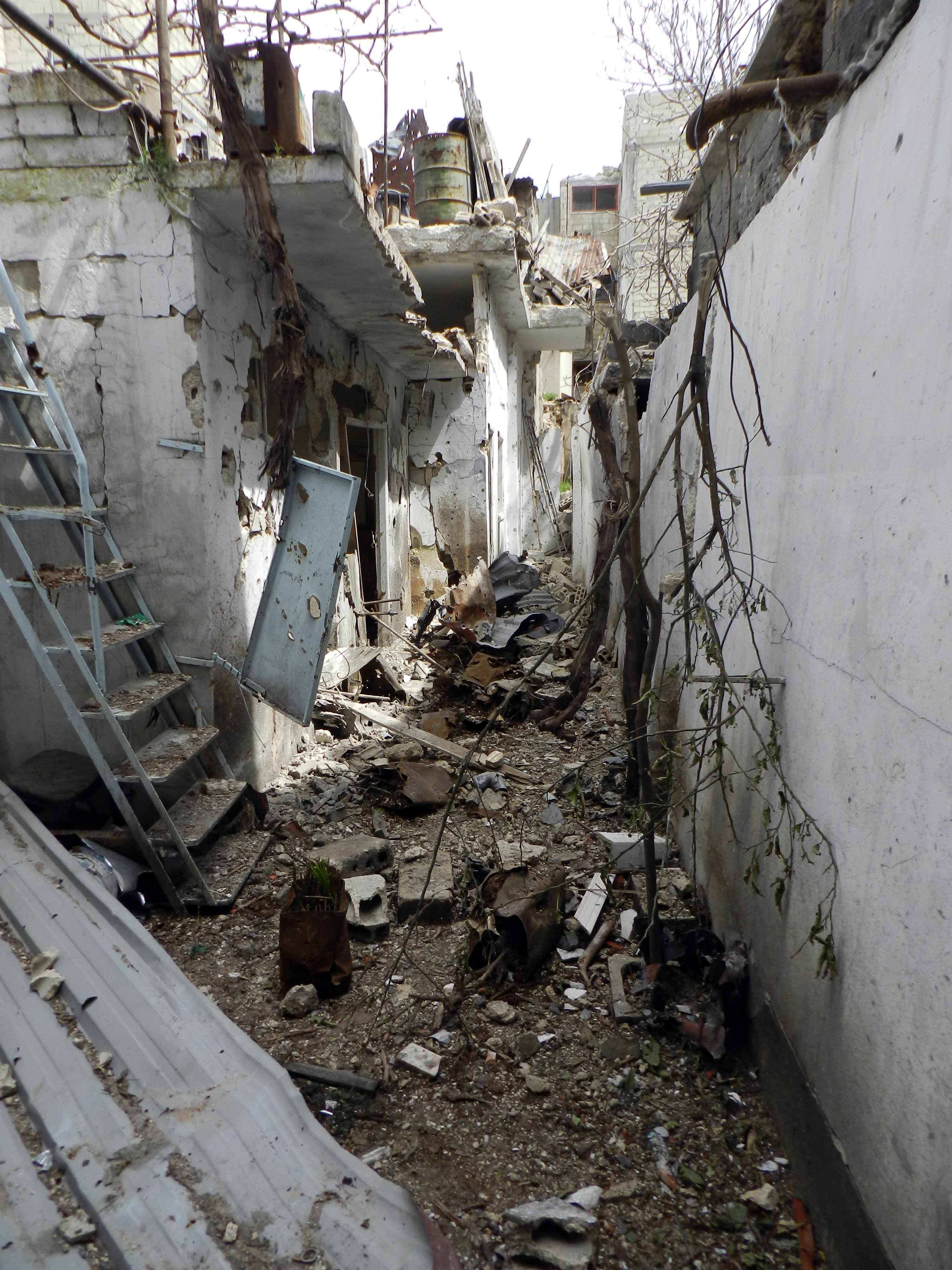 Destruction in Bab Dreeb area in Homs, Syria